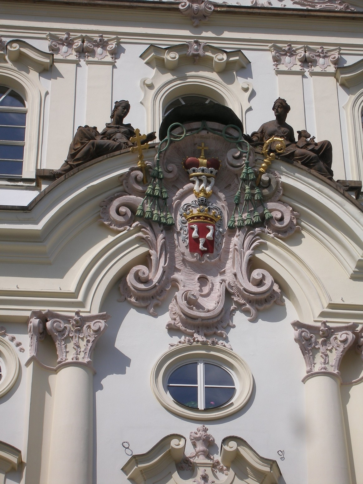 Arcidiocesis of Prague, Bohemia